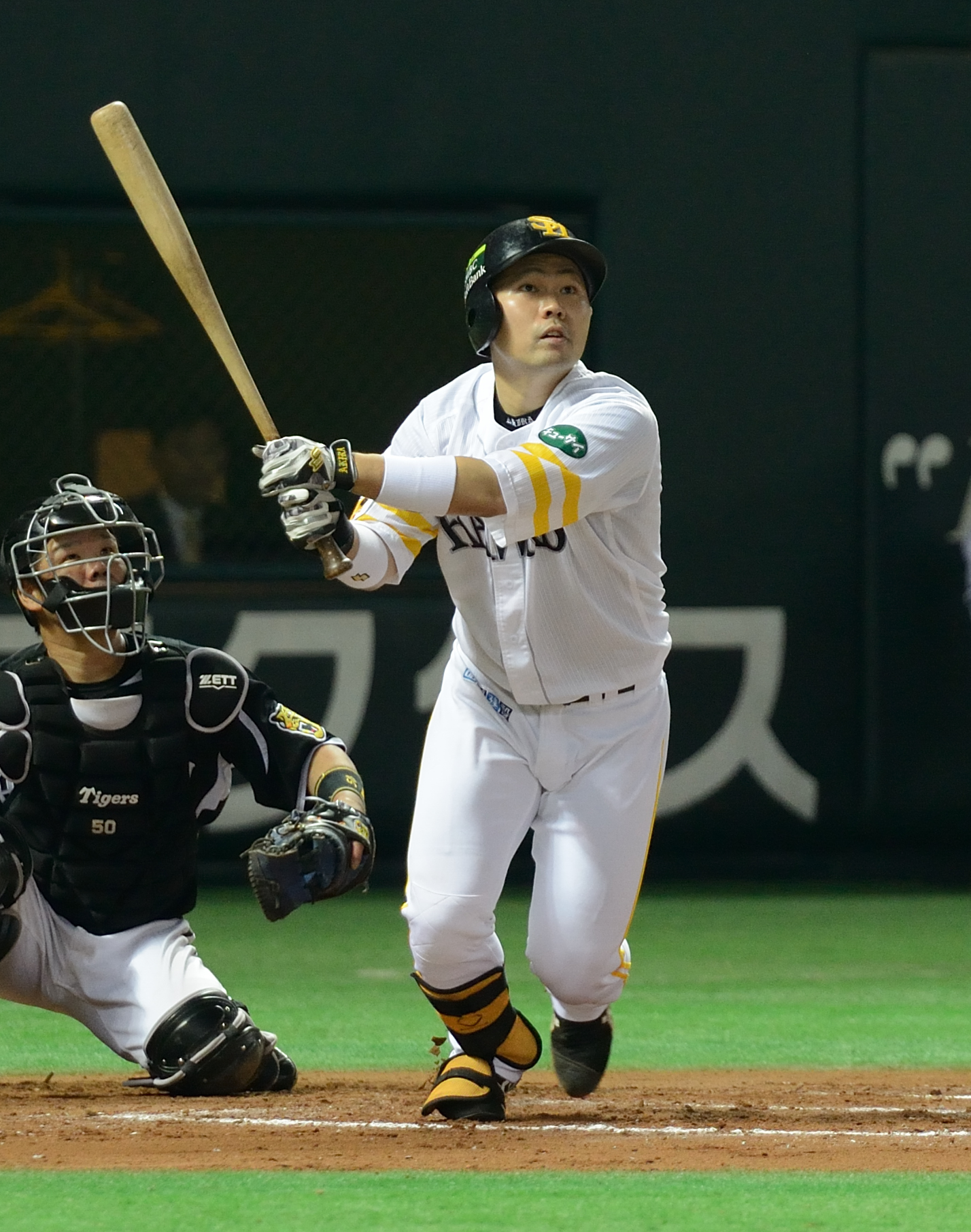 Akira Nakamura, outfielder of the Fukuoka SoftBank Hawks, after hitting a walk-off three run home run in the 10th inning of Game 4 of the 2014 Japan Series at Fukuoka Dome.